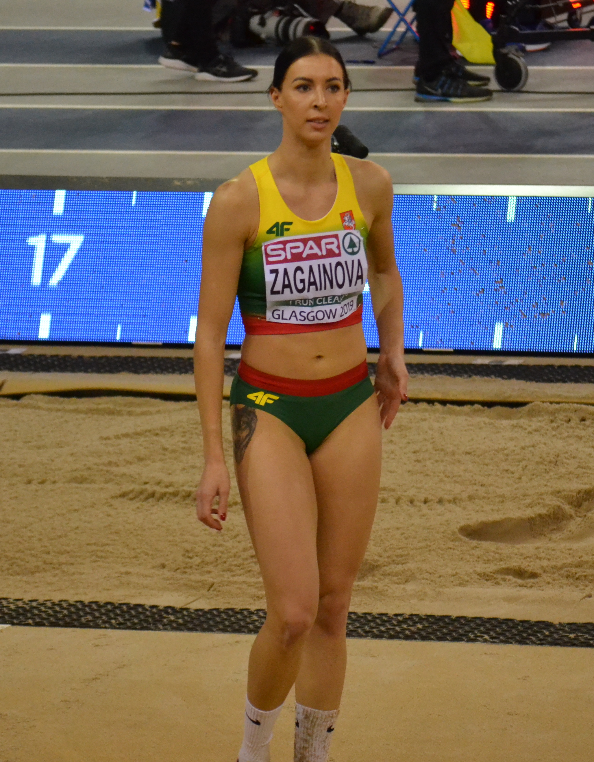 Womens Triple Jump